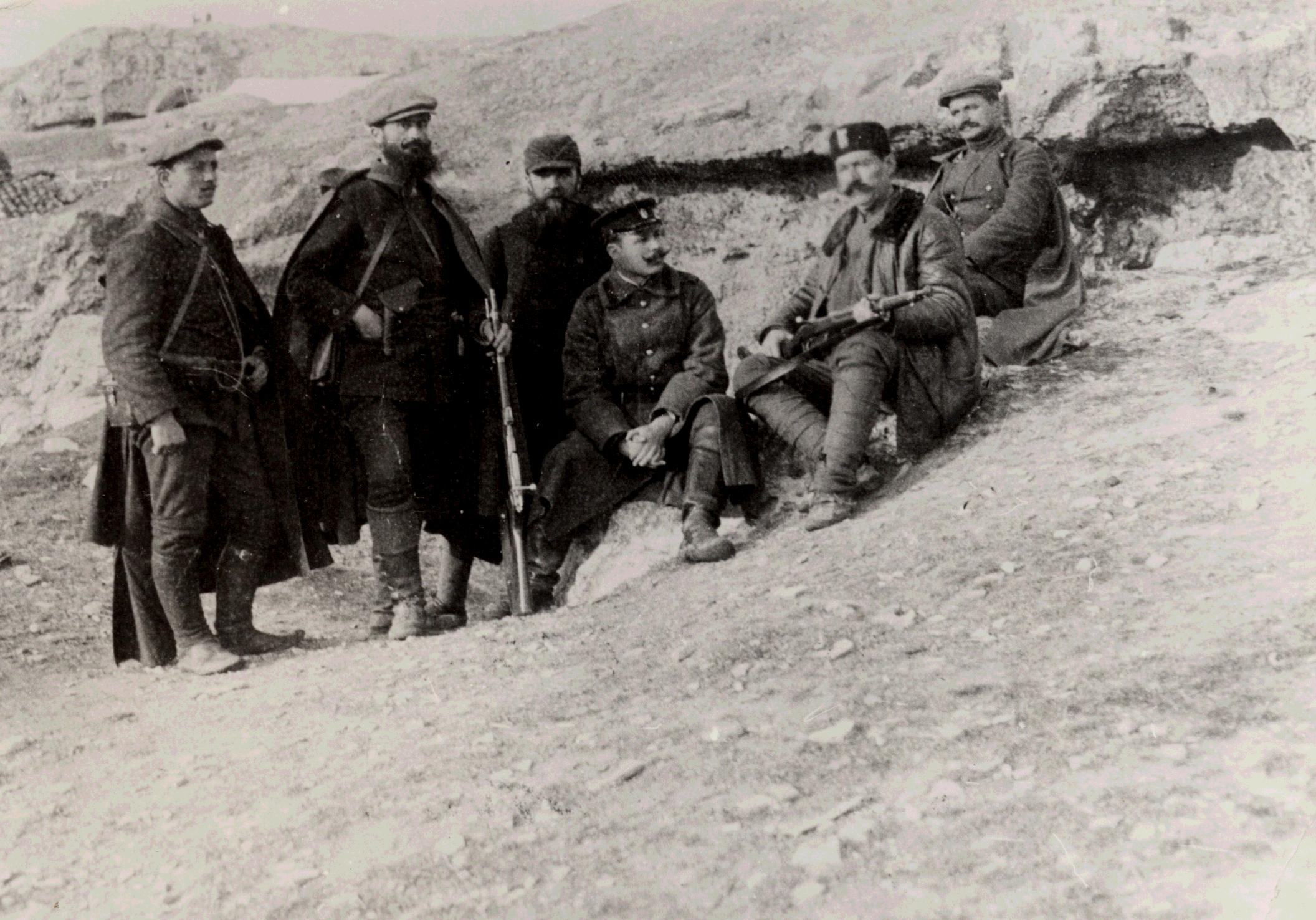 Todor Alexandrov, Hristo Matov, Georgi monchev, Vlade Slankov and Nikola Ivanov in Dimotika during the Balkan wars 1912-1913